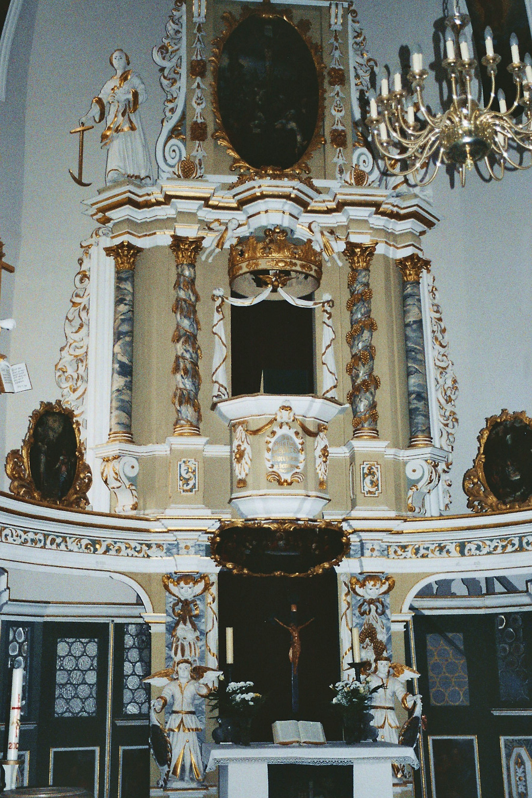 Niederroßla, the baroque church, pulpit altar